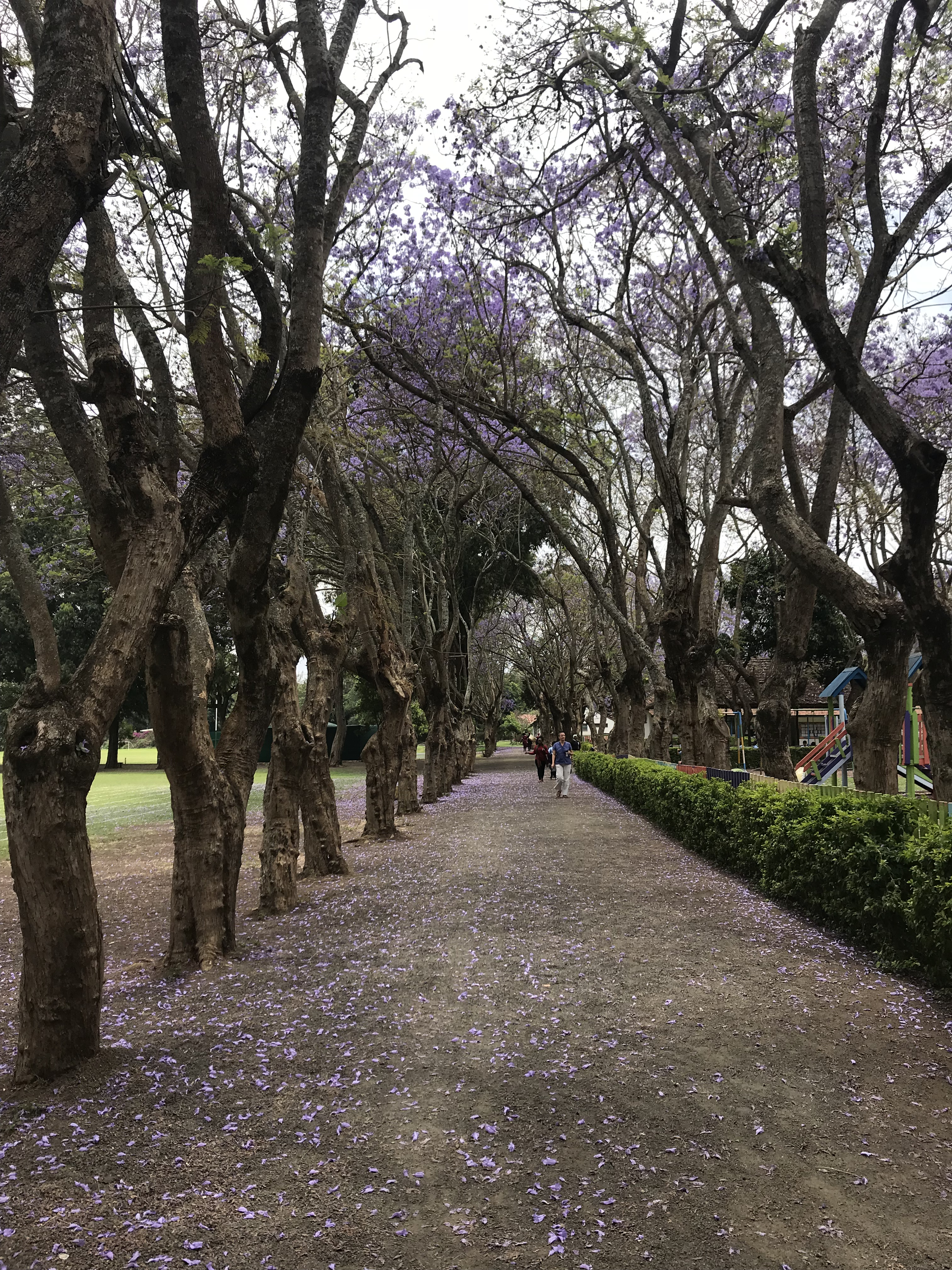 SCIS, the road to the Hospital.